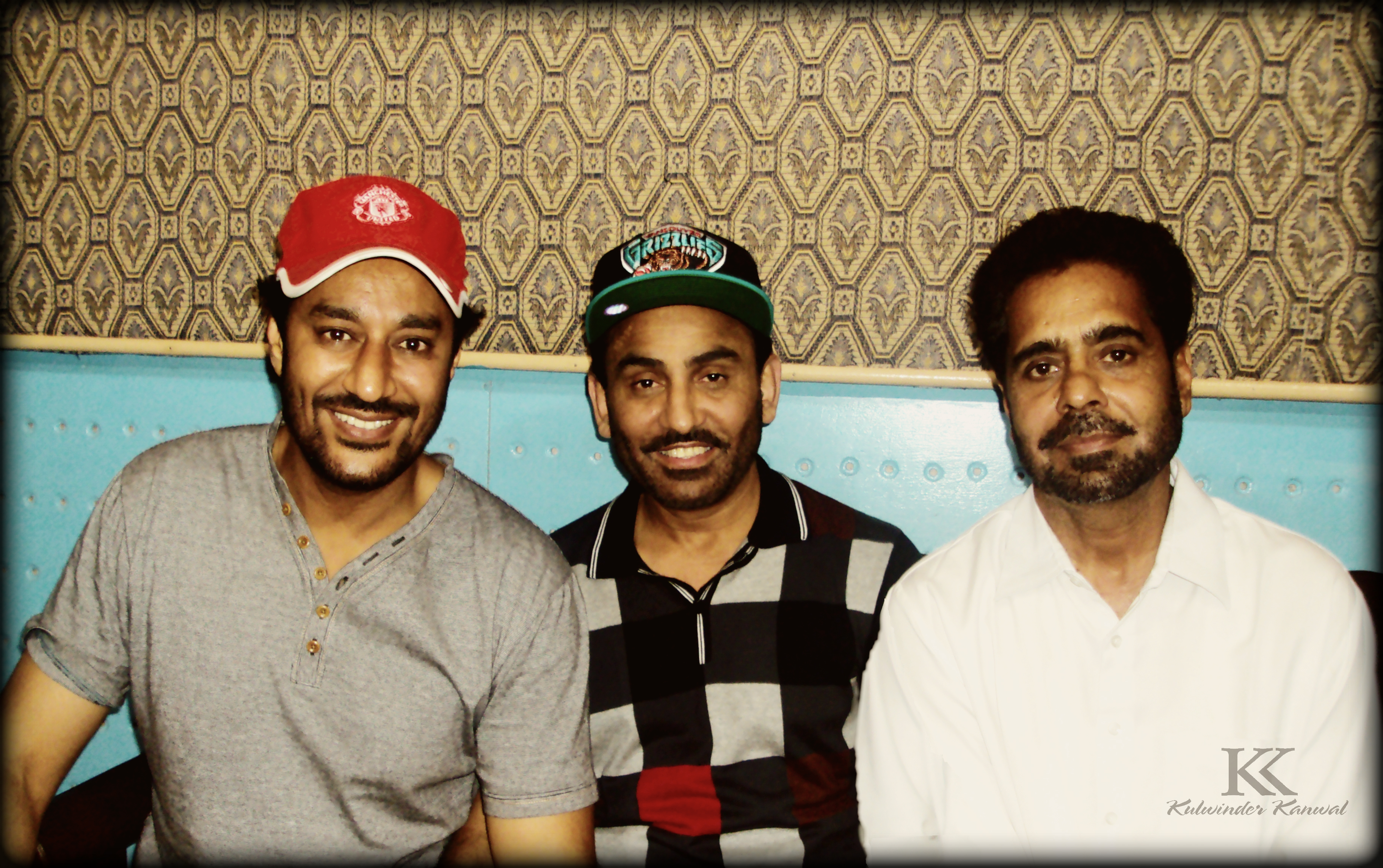 Harbhajan ,Sarbjit & Kulwinder Kanwal